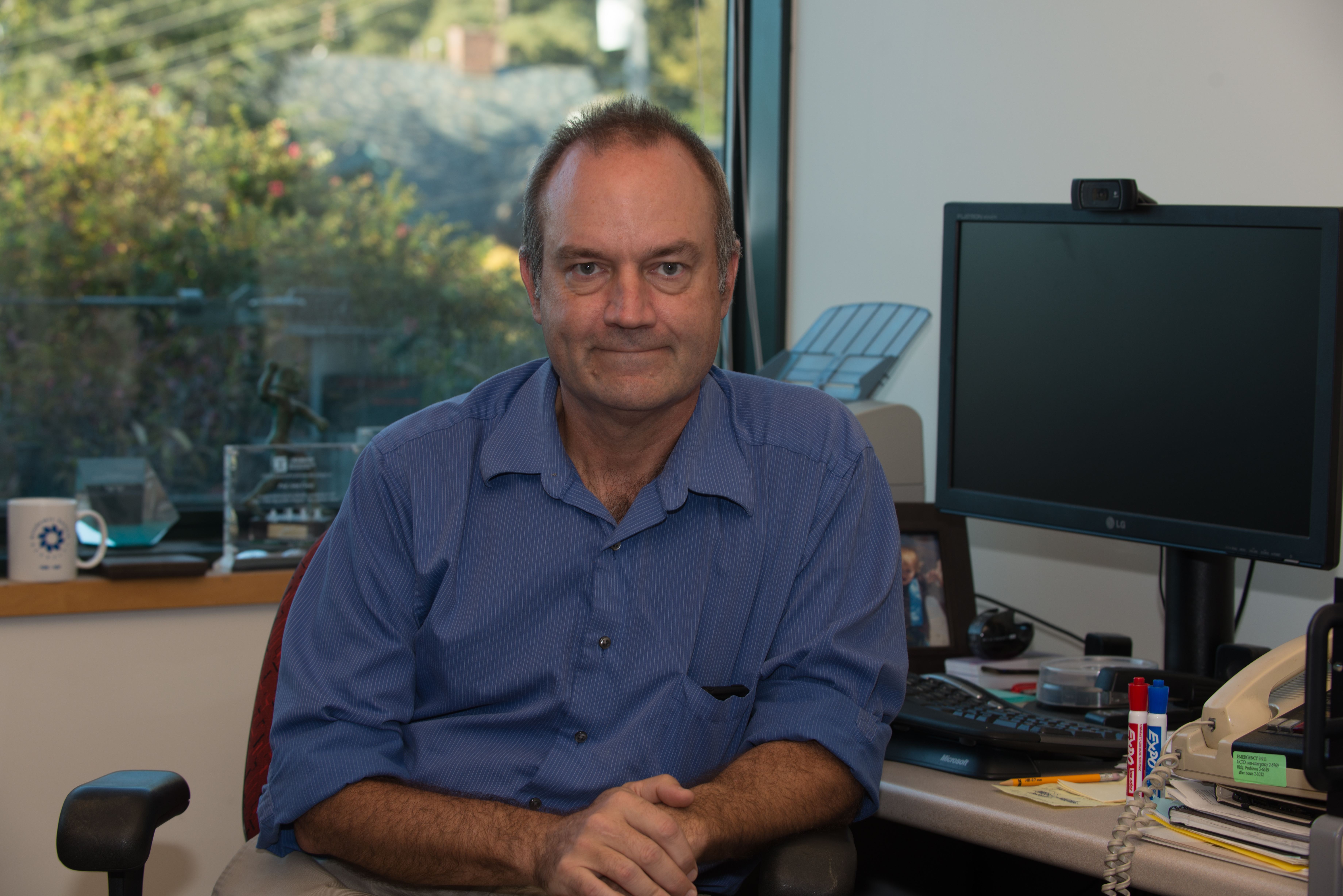 John Canny in his office at UC Berkeley